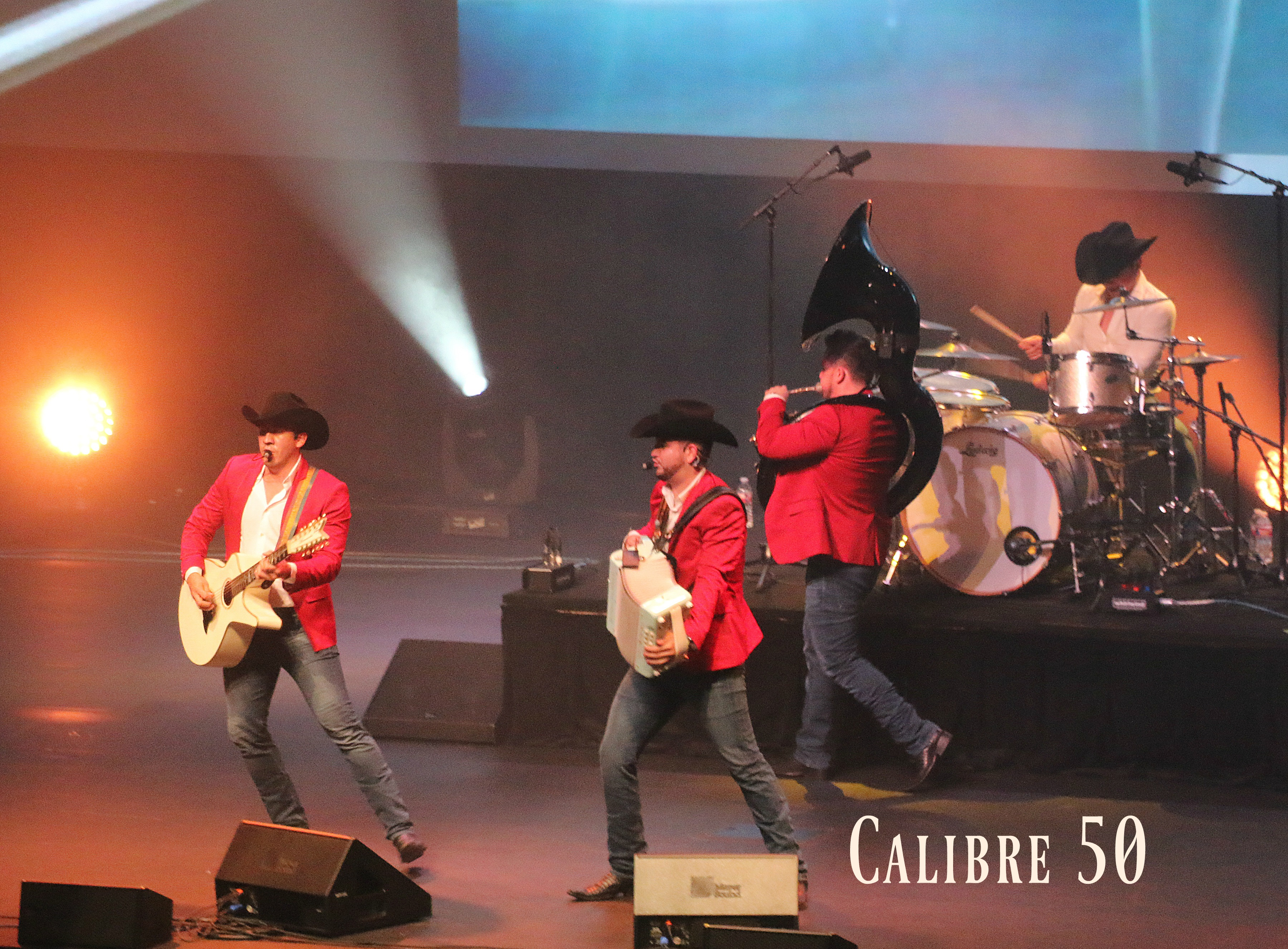 Mexican conjunto Calibre 50 at a concert in Texas, 2016.